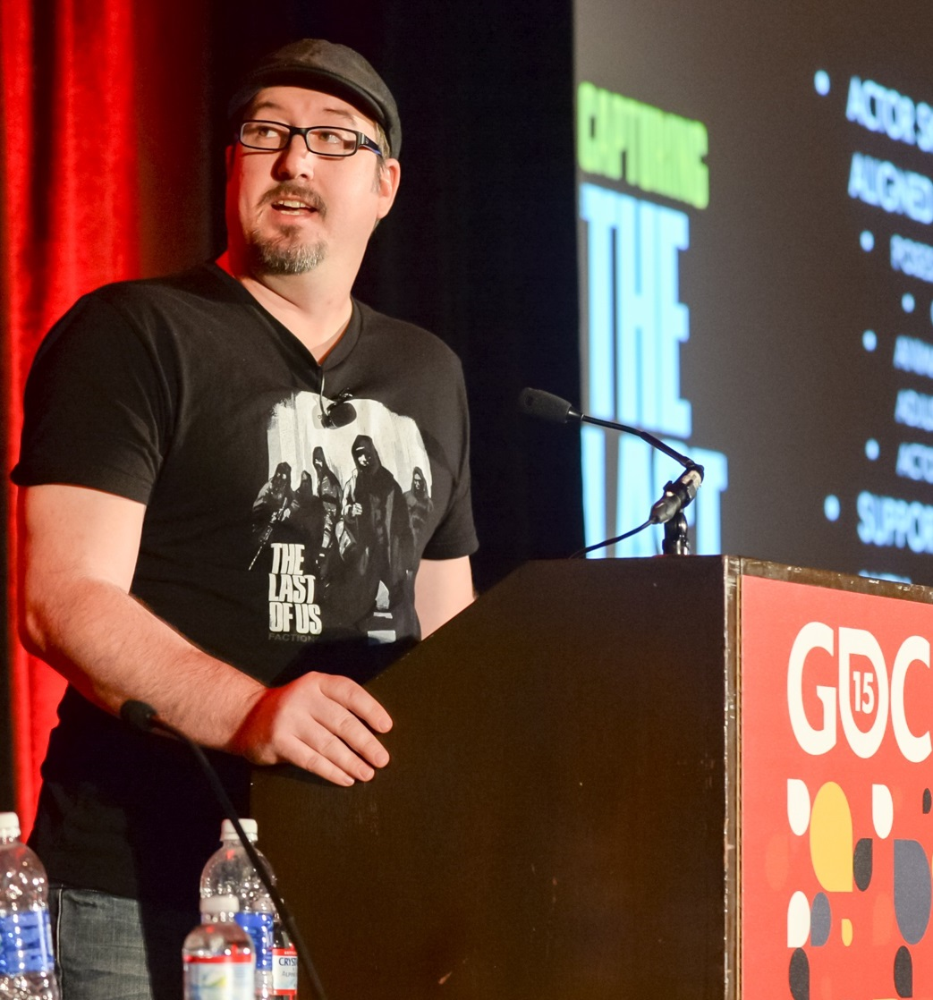 Capturing The Last of Us: Motion Capture Pipeline